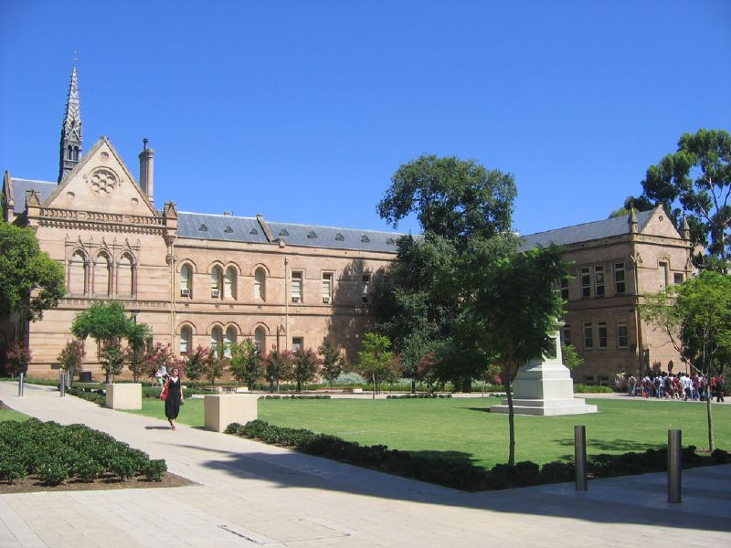 Part of the University of Adelaide campus at North Terrace. (View of Eastern side of the Mitchell Building.)